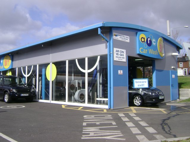 Car wash, Tesco, Emscote Road, Warwick